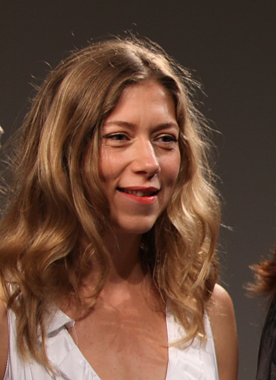 Serbian actress Branka Katić at 2010 Karlovy Vary International Film Festival